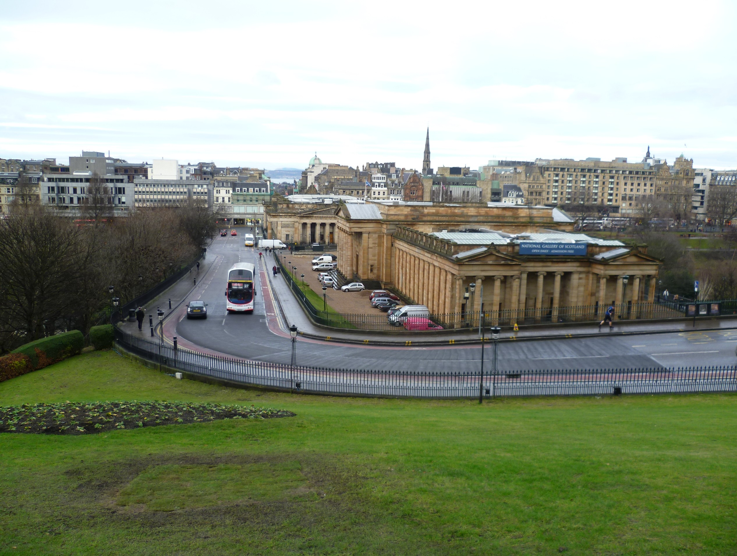 The Mound, Edinburgh